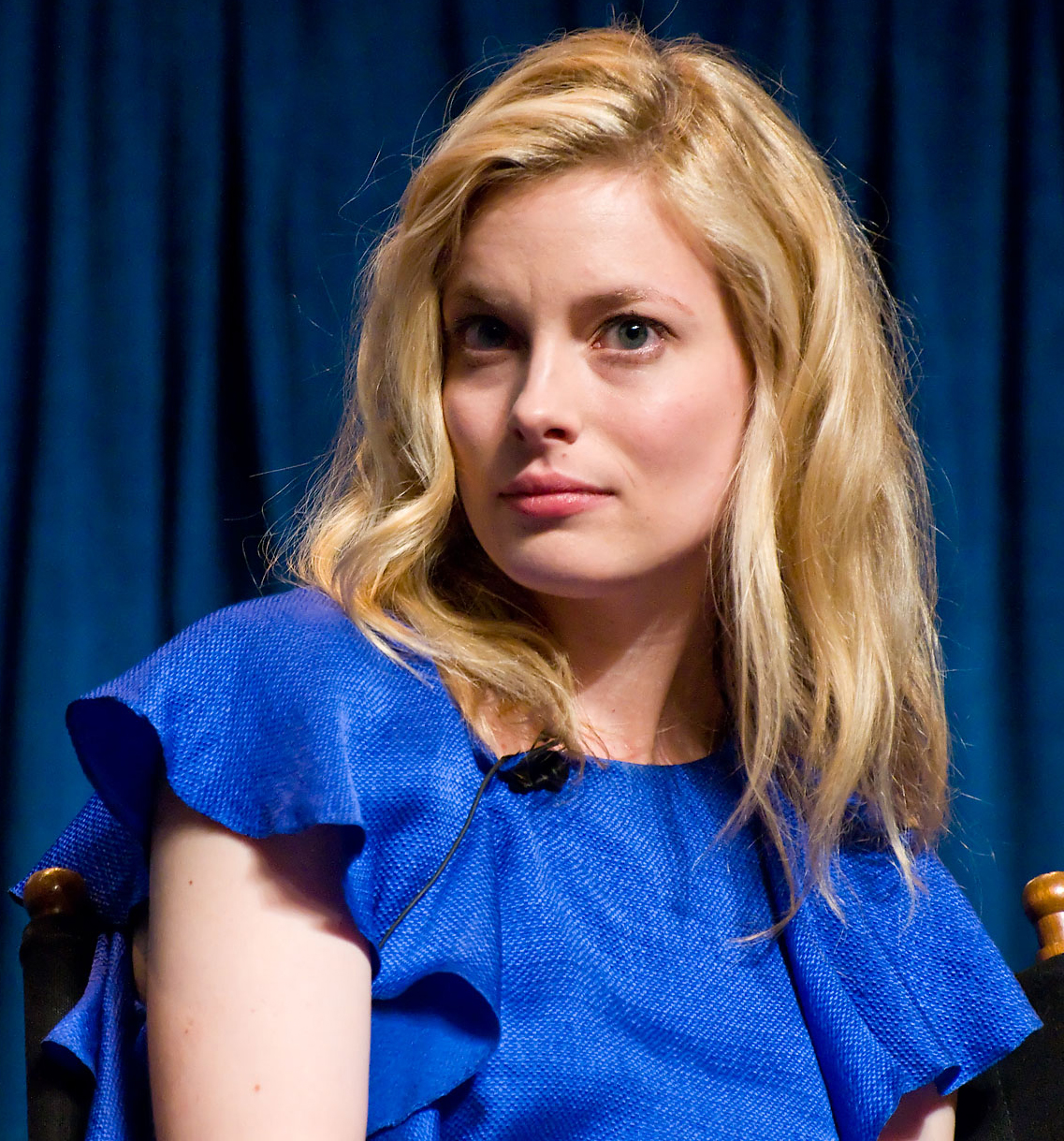 Gillian Jacobs at a panel for Community at PaleyFest 2010.